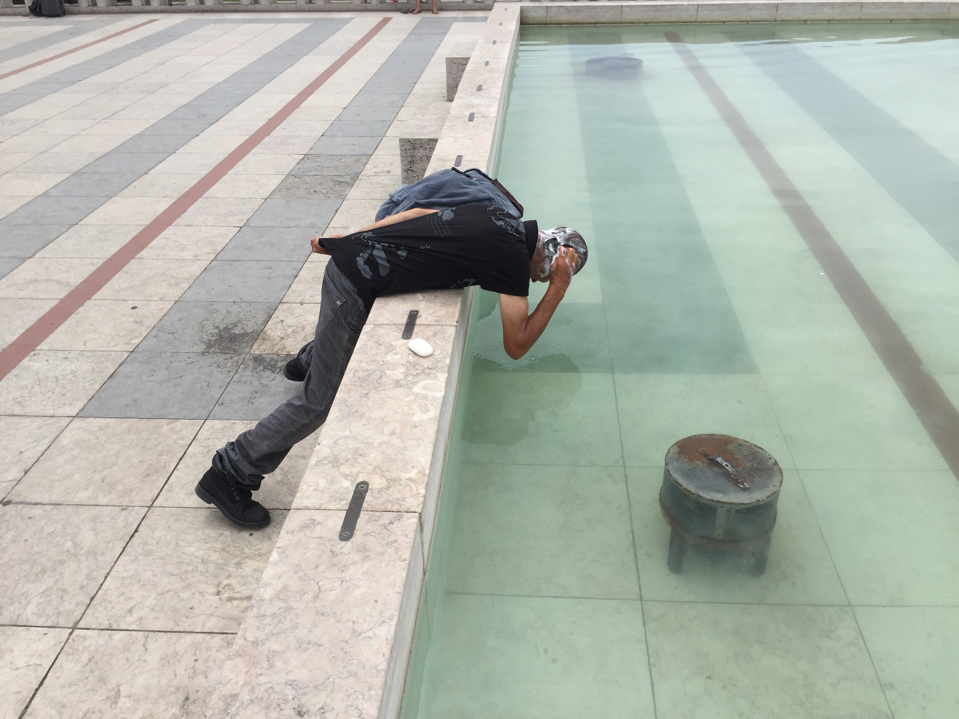 Washing hair in a public fountain